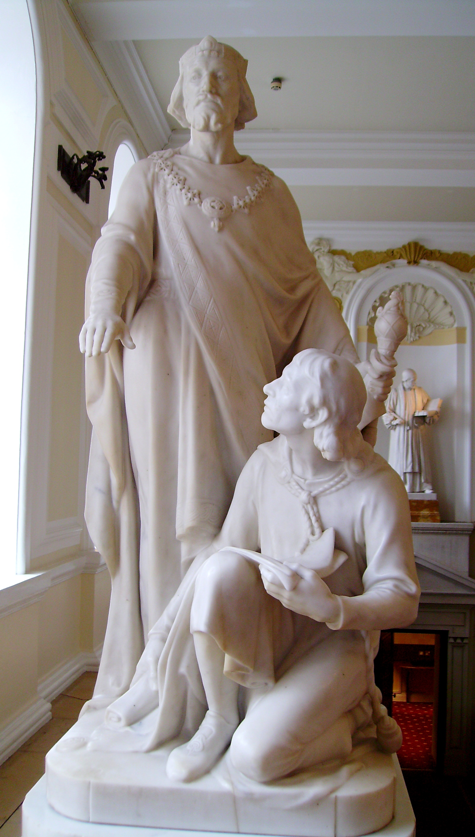 Sculpture of Hywel Dda